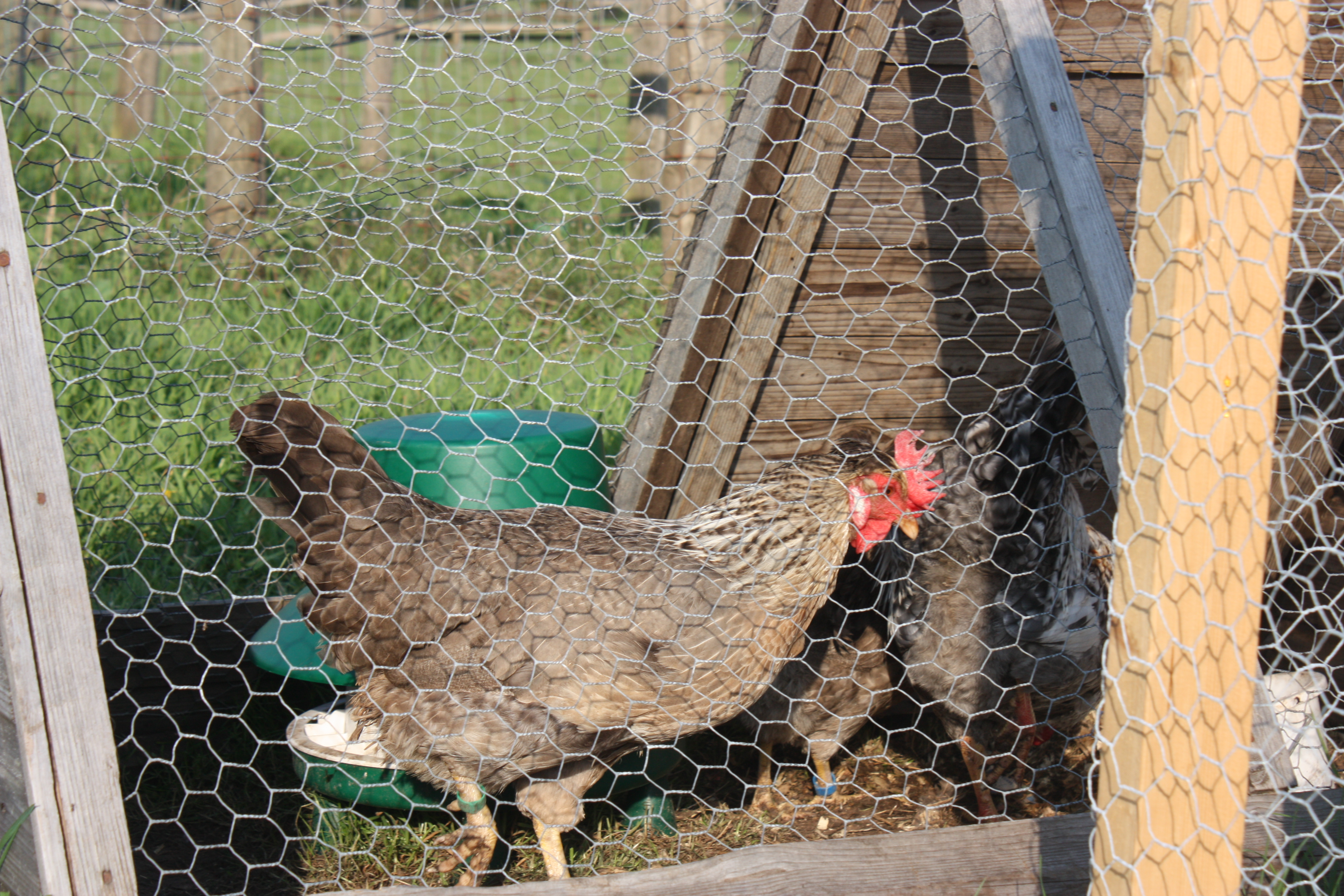 A picture of a Cream Cretsed Legbar hen. It poseses the correct cream neck hackles. The legs should be more yellow but have faded with age.